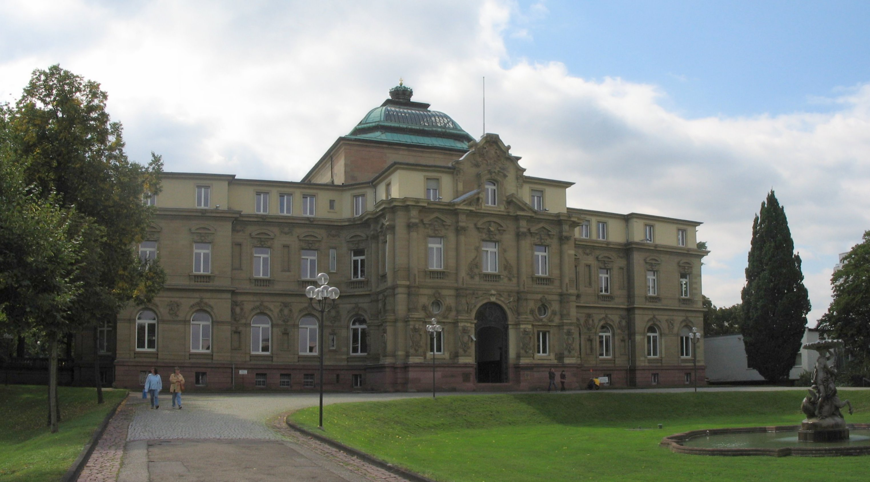 Bundesgerichtshof ("Federal Court of Justice of Germany”) in Karlsruhe